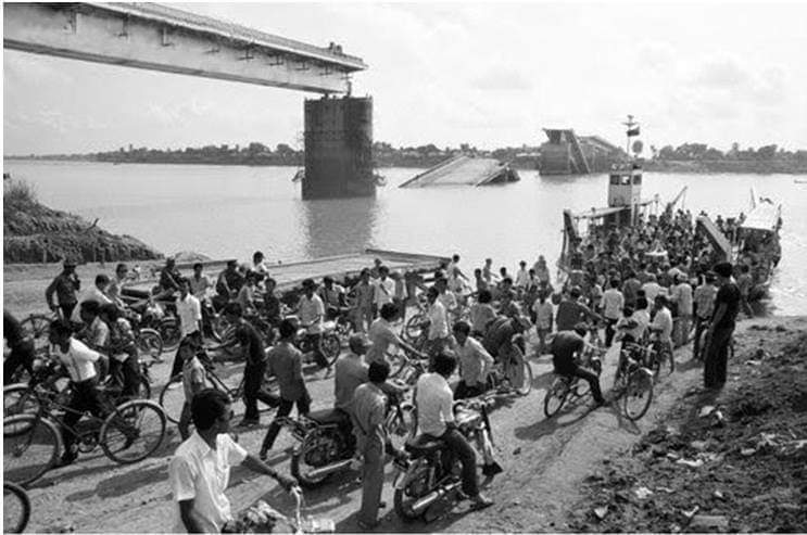 The Picture of Chroy Changvar Bridge after the bombing the next morning